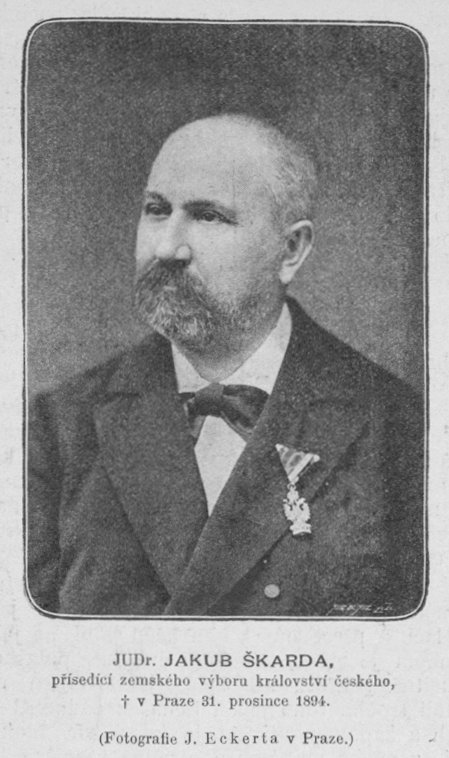 Portrait of Jakub Škarda (1828-1894), Czech lawyer and politician